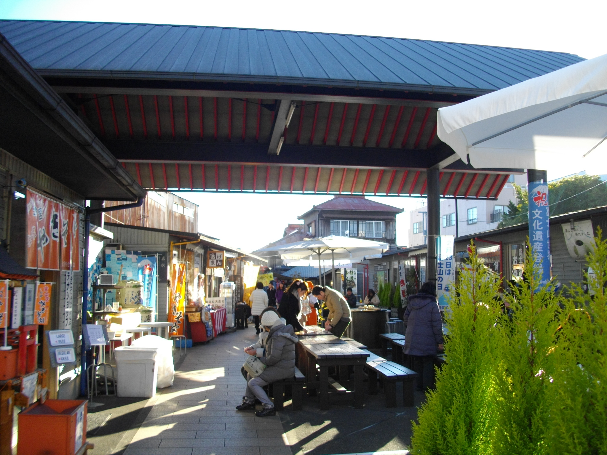 Omiya Yokocho